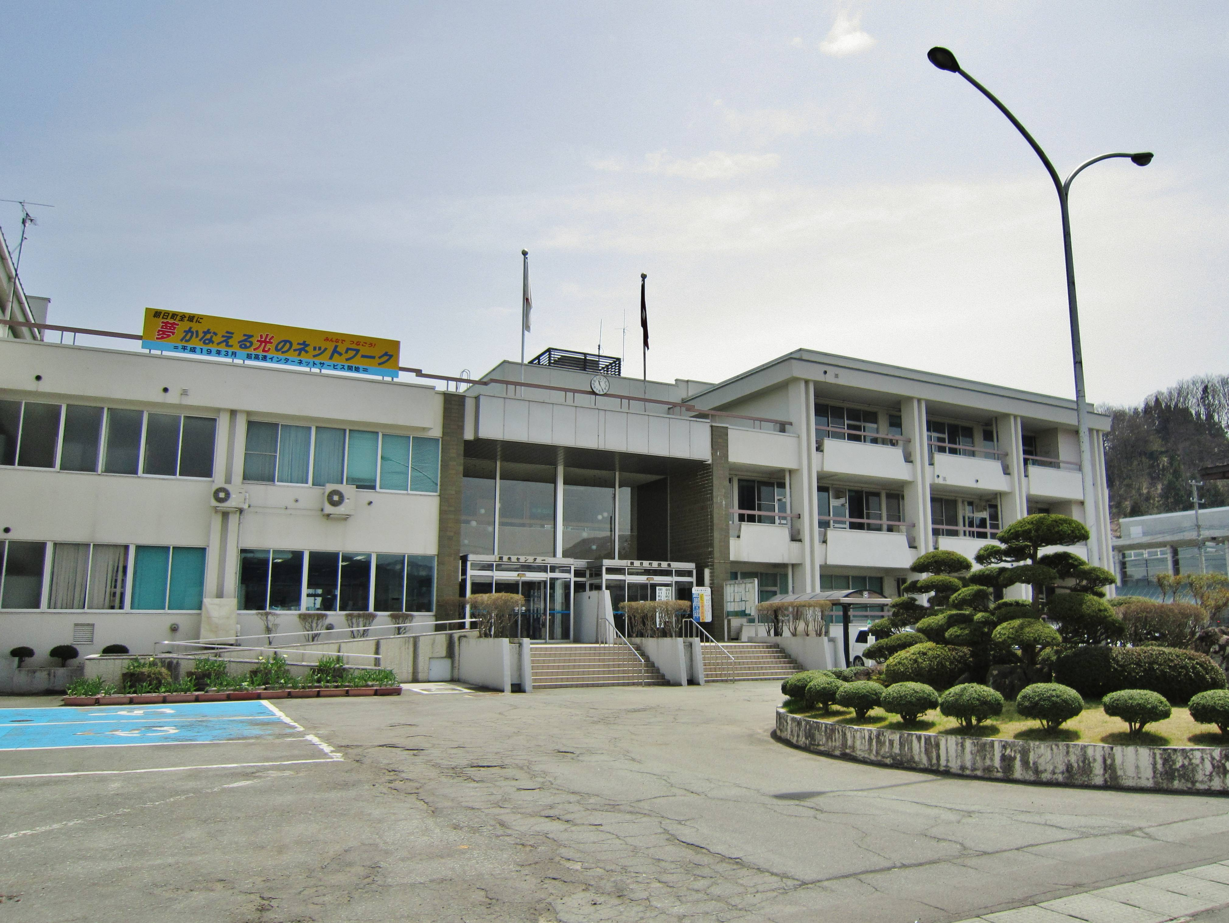 Asahi town office.